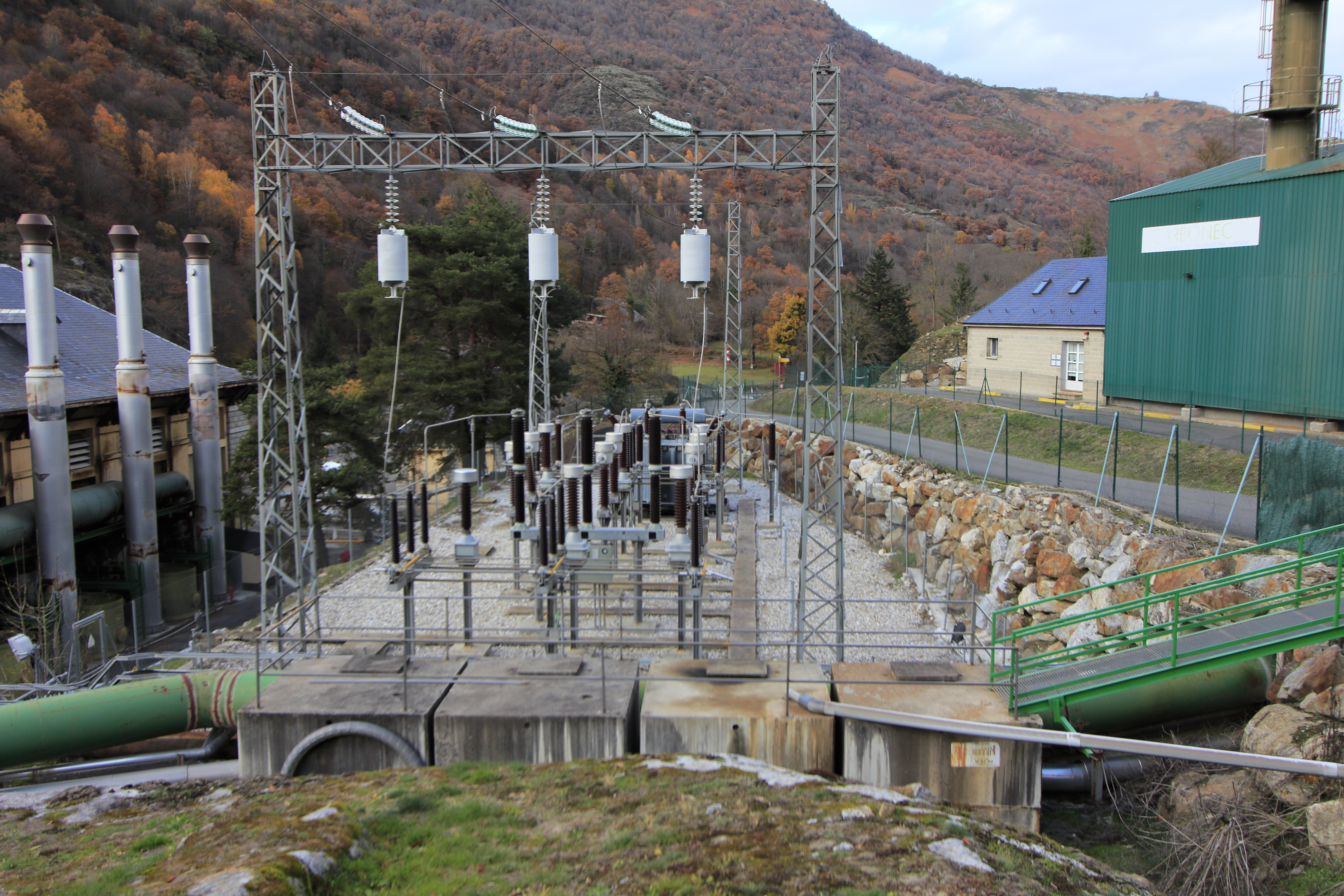 Former Cledes hydropower station's electrical substation (Catalonia)